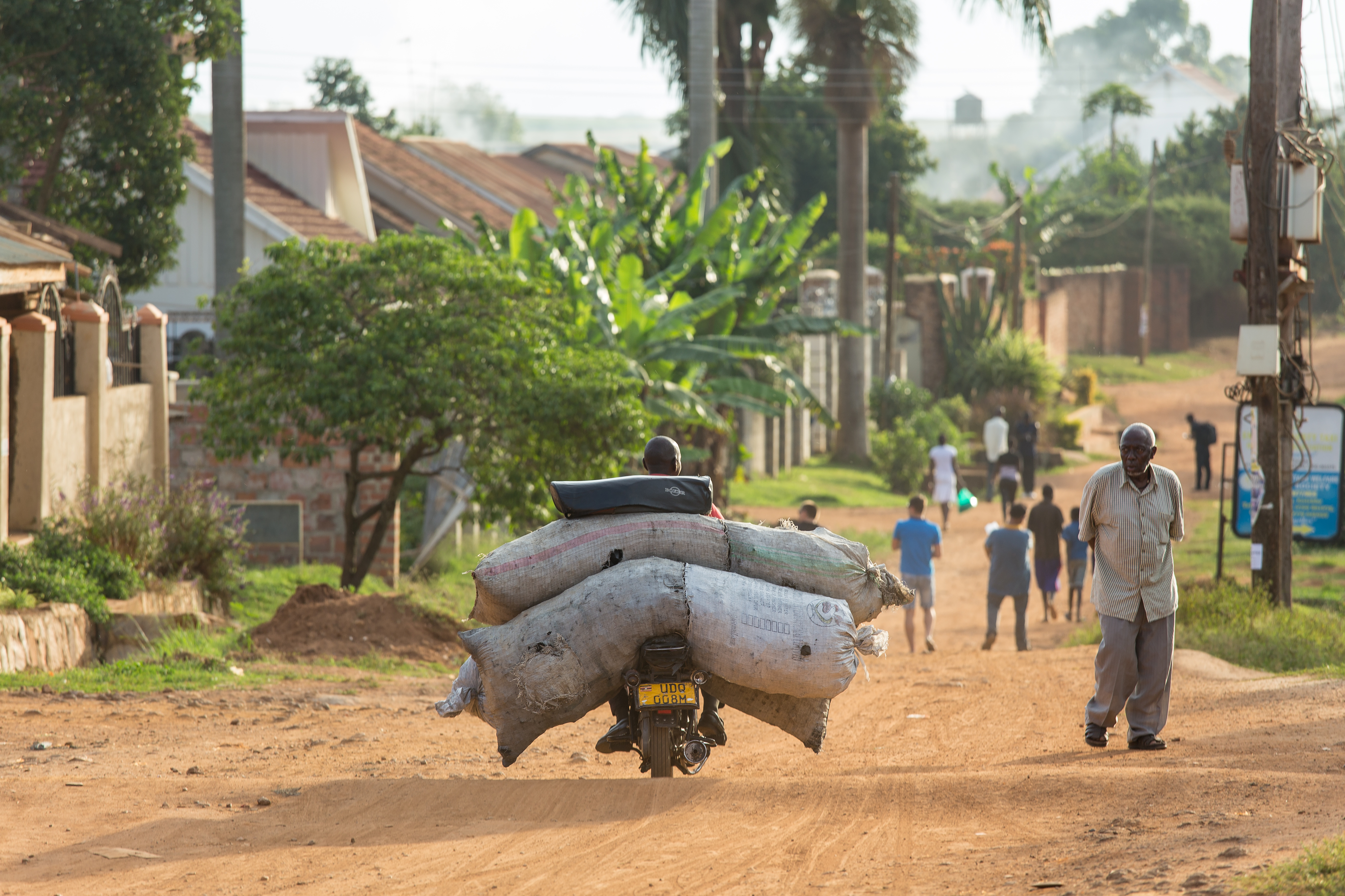 Entebbe, Uganda.